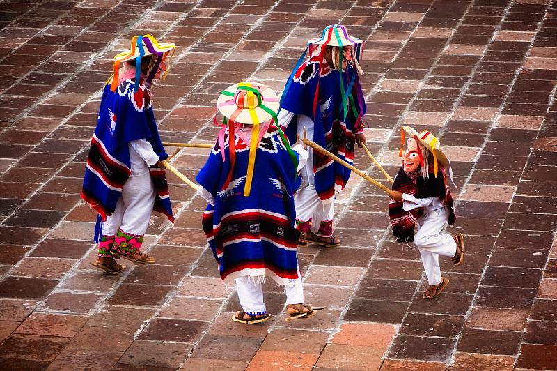 Dance of the old men, "Danza de los Viejitos" is a dance in the island of Janitzio, Michoacan. It is a humorous dance where the dancers wear masks of old people along with their typical campesino clothing. The dance starts out with aching and hunched over old men, with minimal movements. These movements turn into vigorous dancing combined with trembling and coughing and falling over by the "old men". The dance has lost its original meaning, and has now come to represent the richness of life expressed in a dance, as a gift to Baby Jesus, since they could not afford to give him anything else. The dance is done several times a year, during religious holidays.